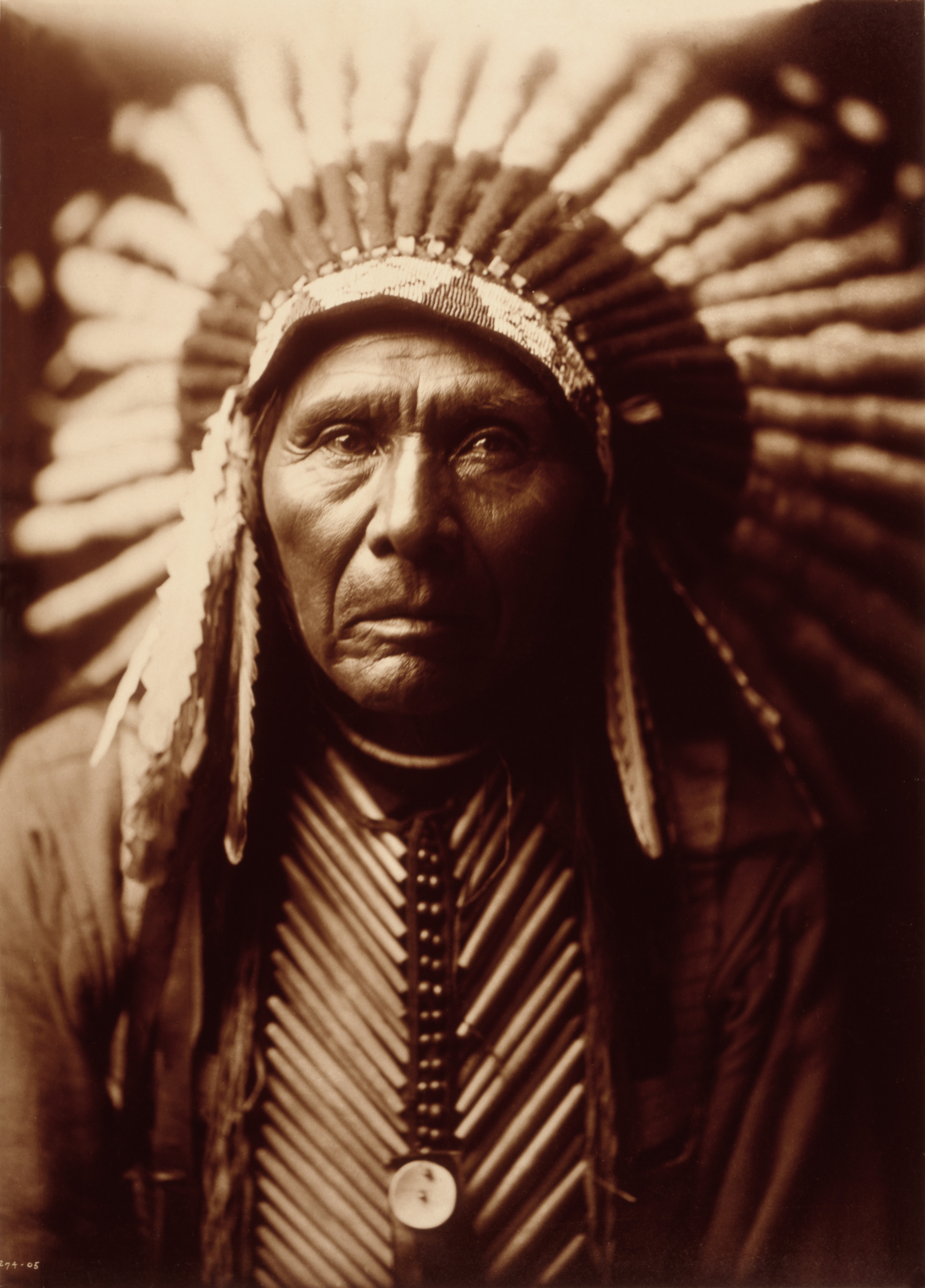 Three Horses, head-and-shoulders portrait, facing front, wearing headdress.